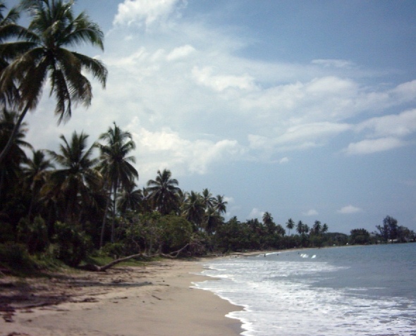 Beach in Wewak, Papua New Guinea